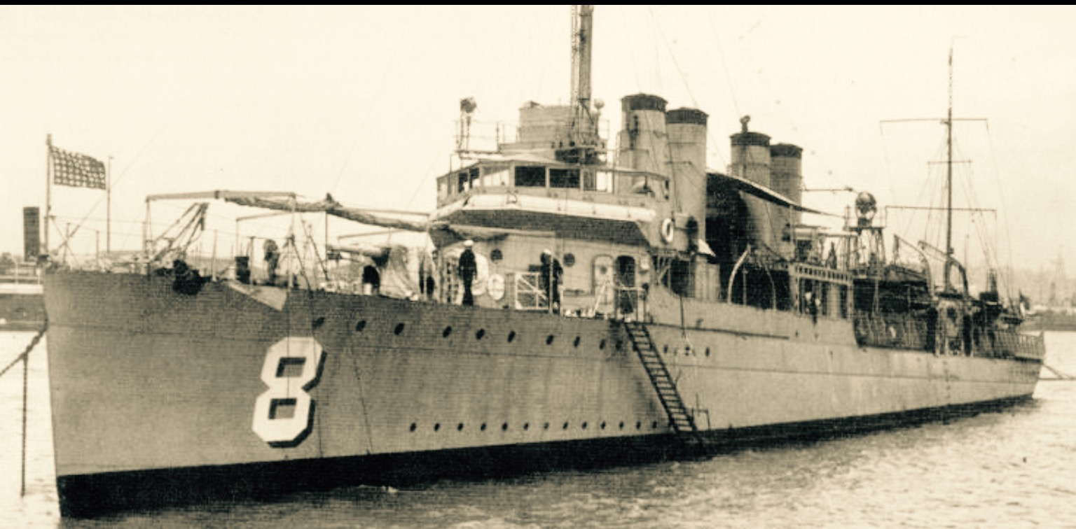 The U.S. Navy light minelayer USS Hart (DM-8) in Chinese waters, in the 1920s.